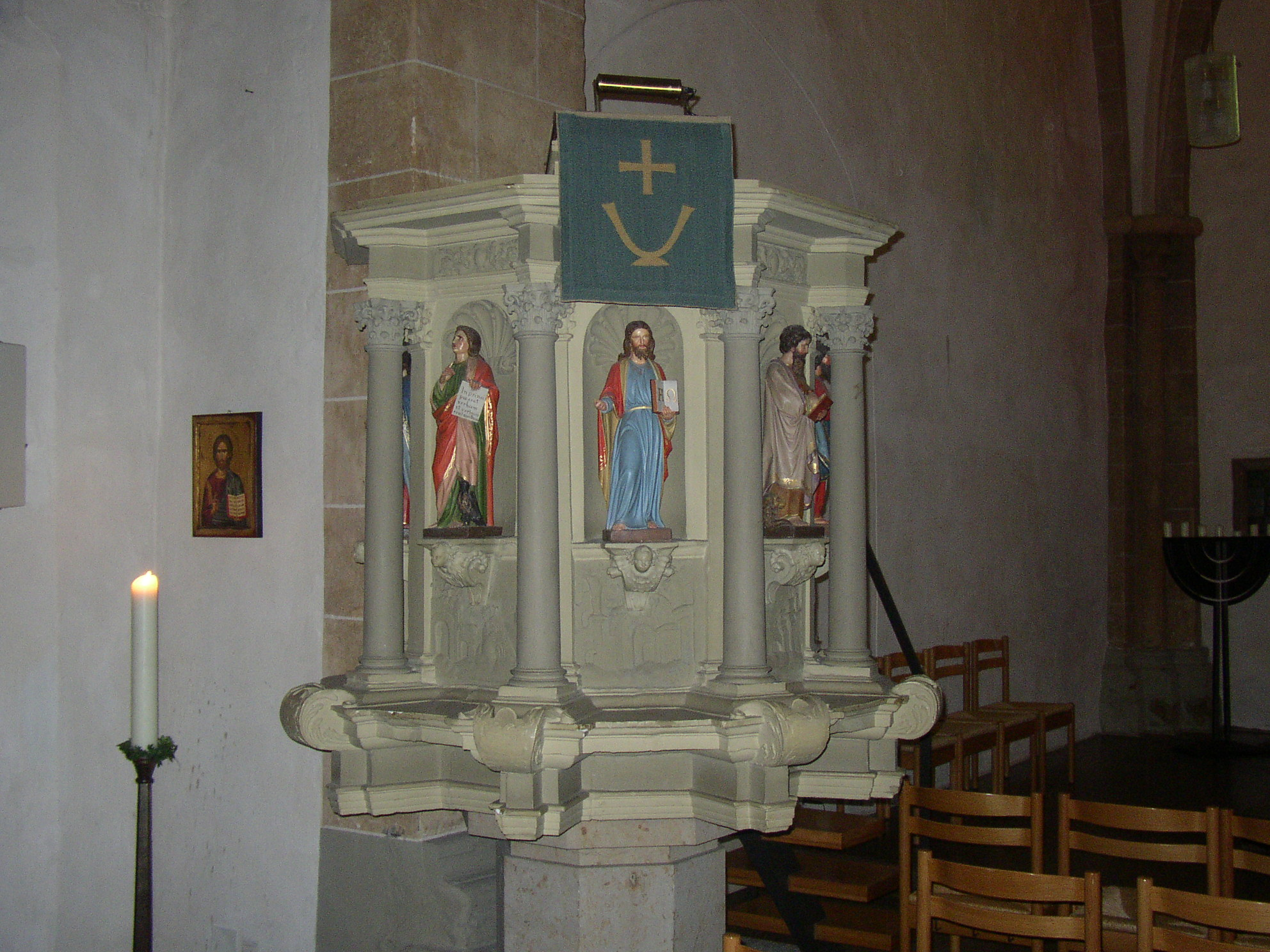 pulpit of St. Johannis church in Halle (Westfalen), county of Gütersloh, Germany